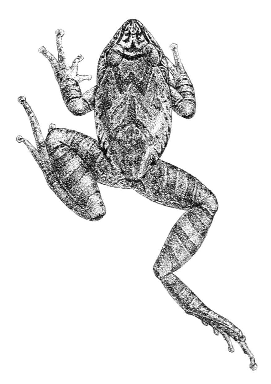 Hylodes surdus = Pristimantis surdus